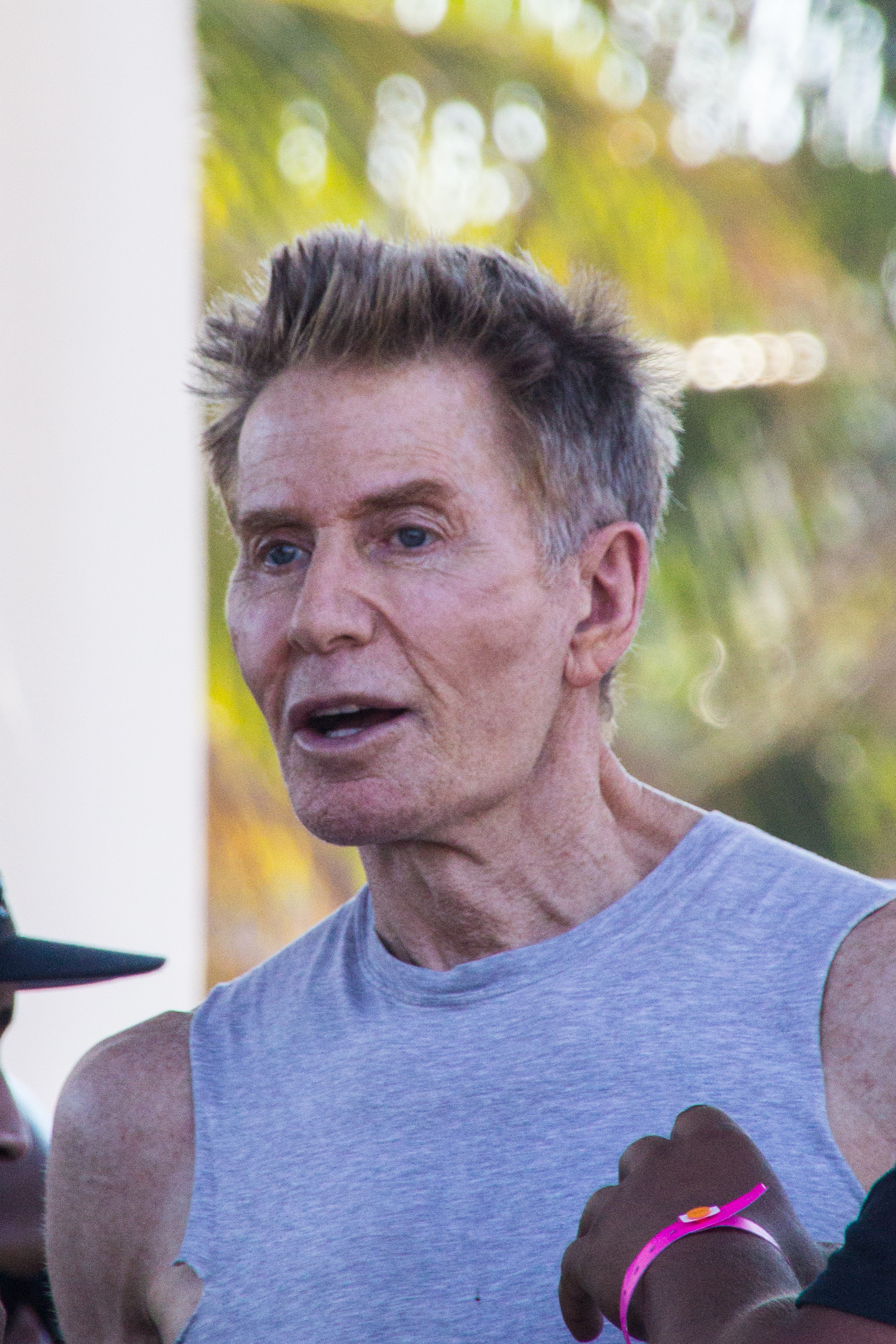 Calvin Klein at Model Beach Volleyball Tournament MBVT 2014 in Miami Beach